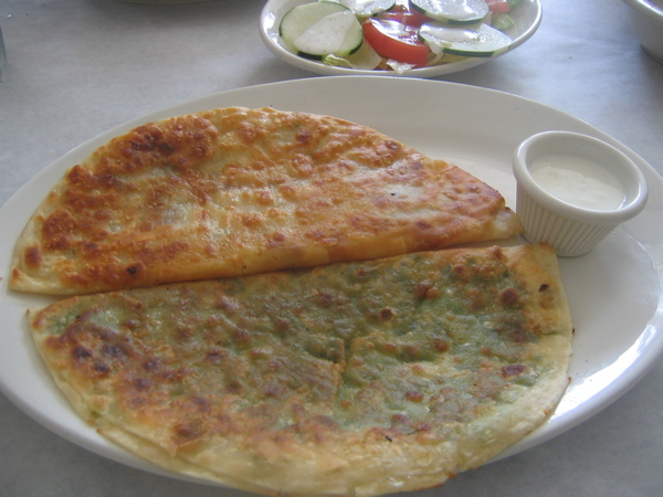 Bolani flat-bread of Afghanistan